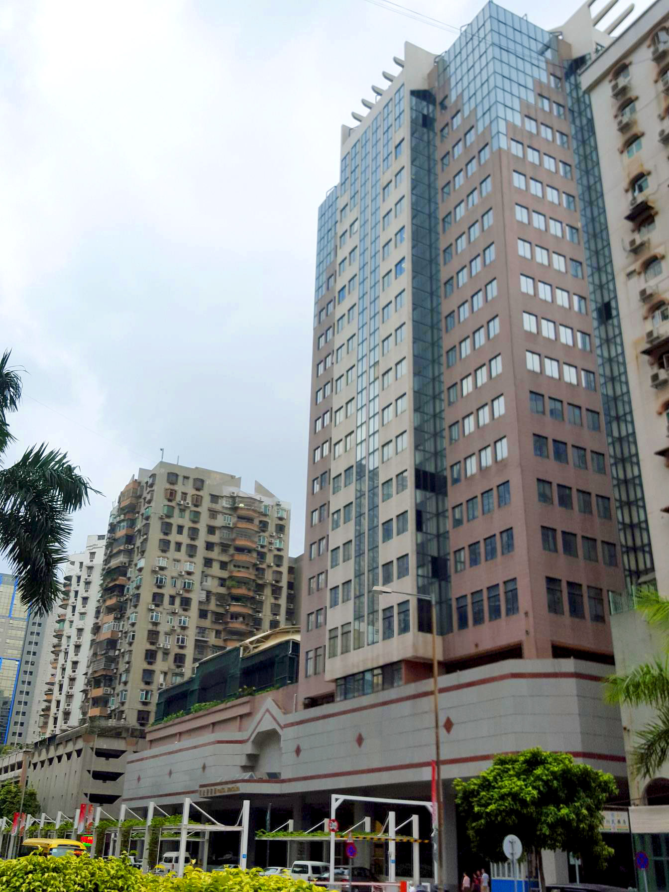 Macau Polícia Judiciária Building